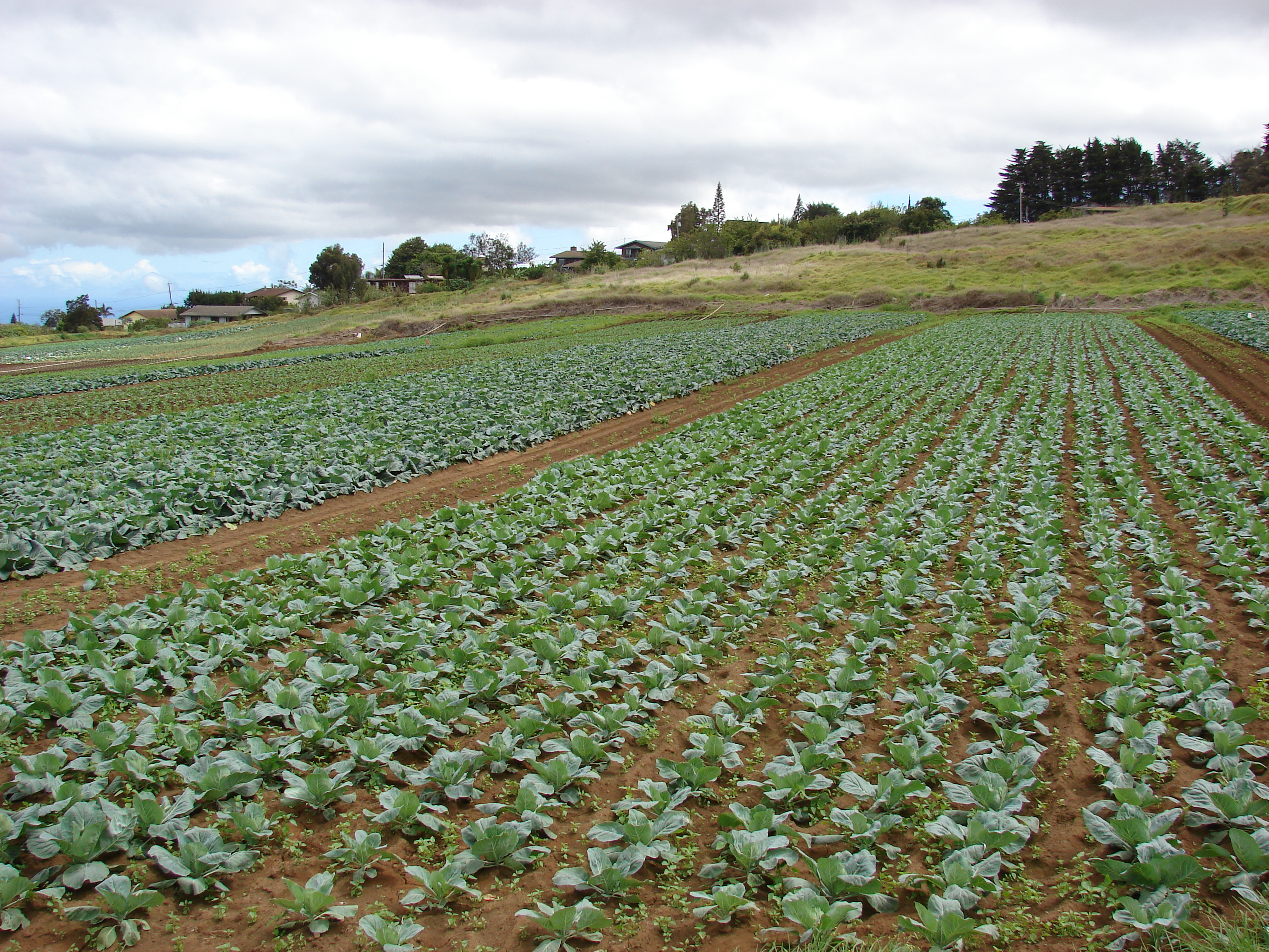 Brassica oleracea var. capitata (crop). Location: Maui, Kula